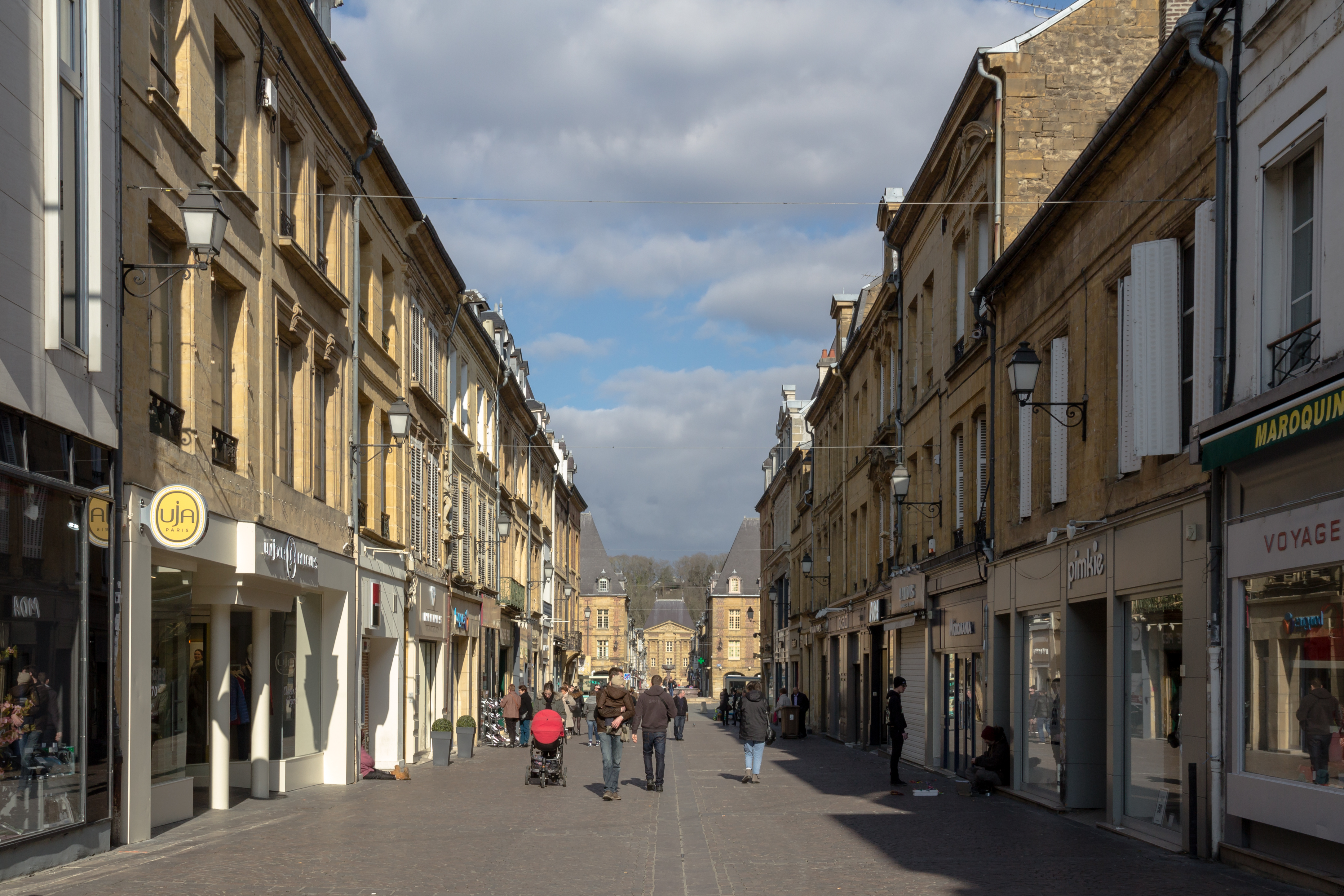 Rue de la République, Charleville, Charleville-Mézières, France